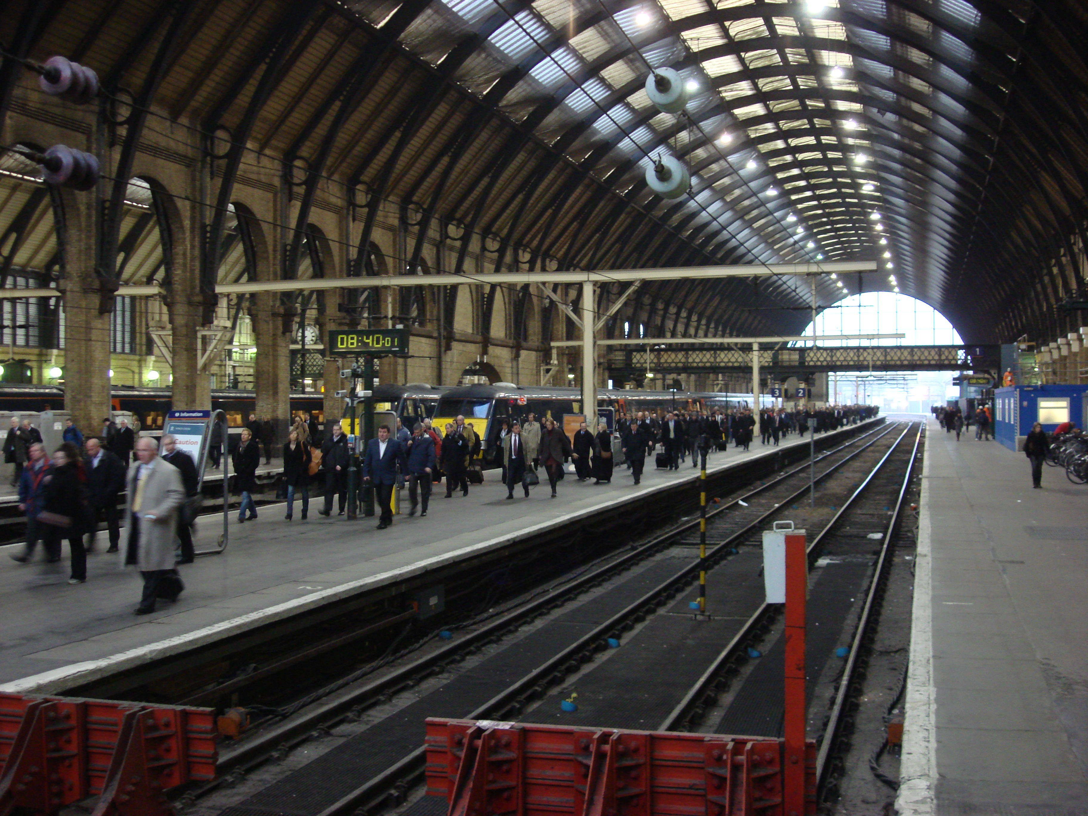 Rush Hour at King's Cross railway station, London, UK